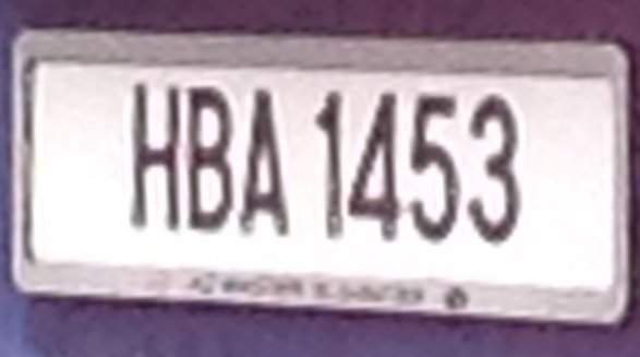 Malaysian Taxi Registration Plate